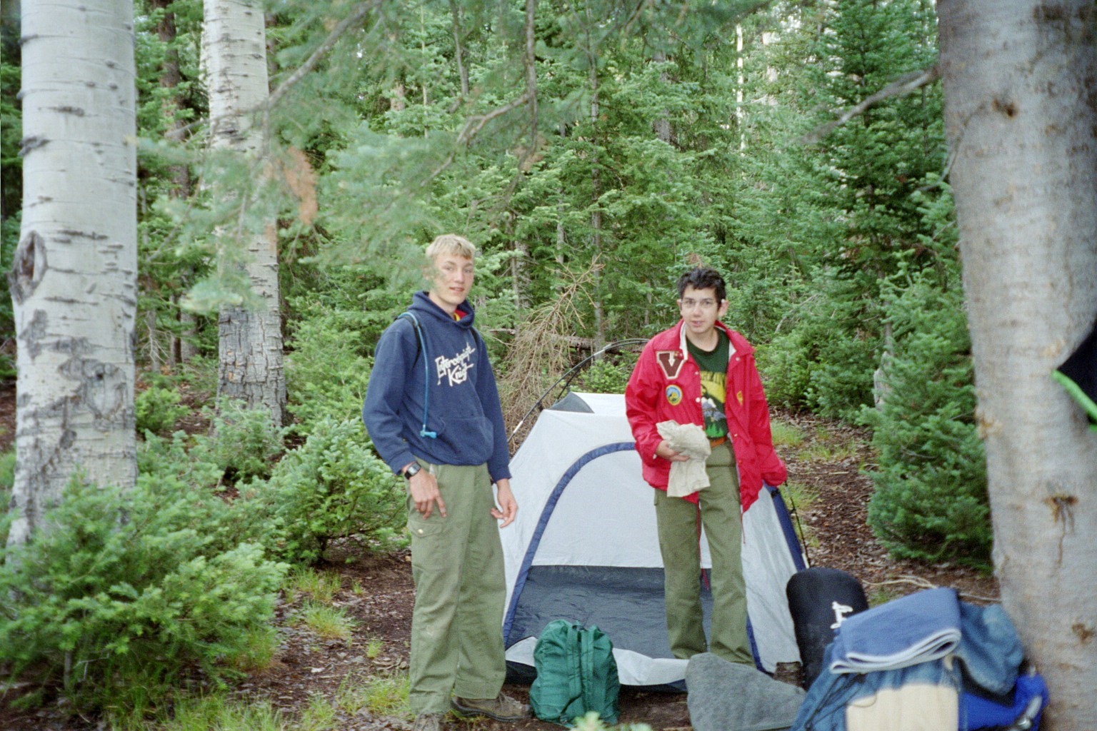 Two Varsity Scouts setting up camp along the trail.